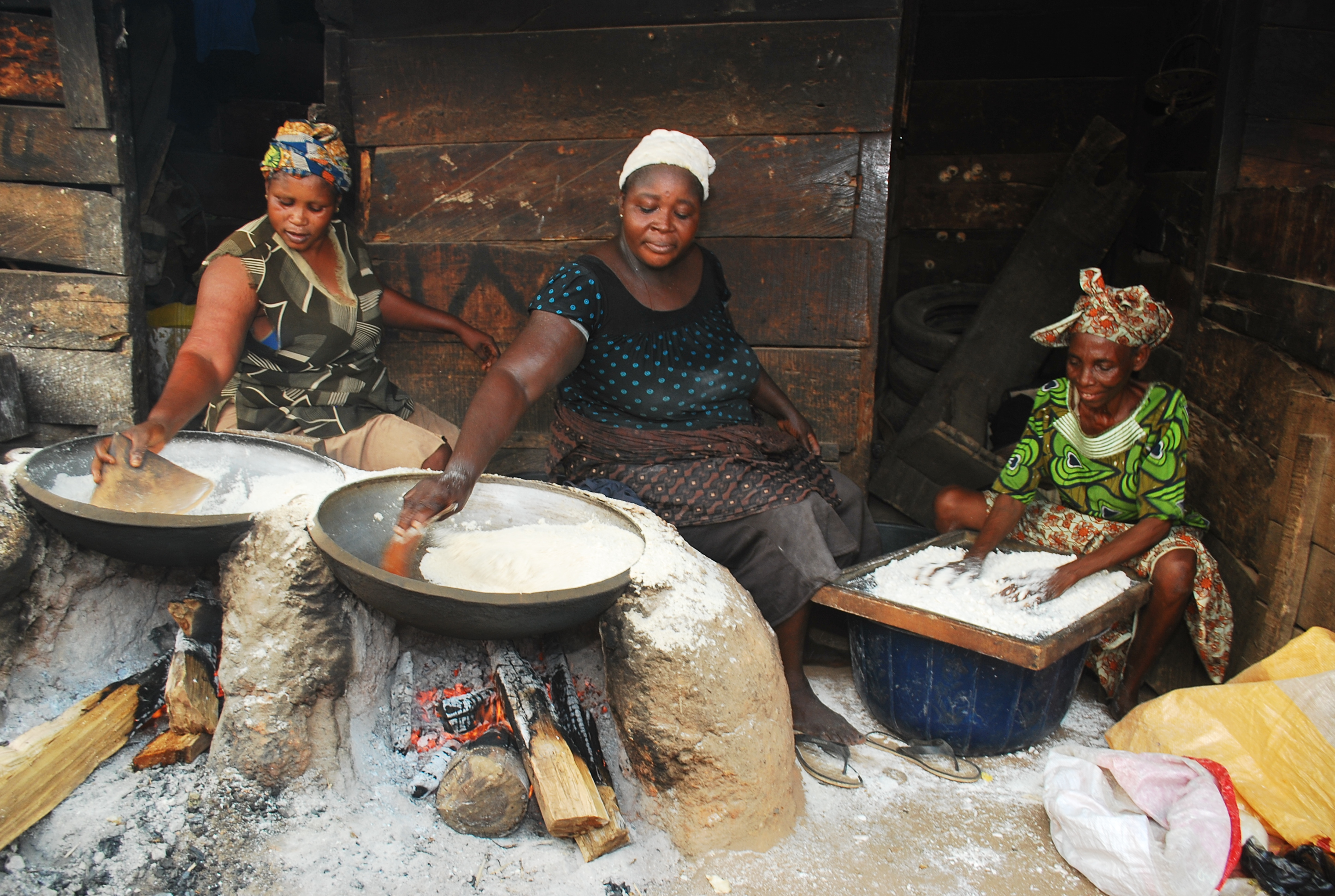 Sieving: The Gari is sieved to separate coarse particles, with a standard size sieve to produce fine granules. A grinder is used to break the large granules into smaller ones. Roasting: The grits are then roasted or fryed in a hot frying tray or pan to form the final dry and crispy product. Gari is normally white or cream, but will be yellow when made from yellow cassava roots or when fried with palm oil. It is important to make sure the taste and smell is acceptable to local consumers. Yellow cassava roots and palm oil are rich in vitamin A and therefore make nutritious gari. The roasted gari are spread on a raised platform in the open air to cool and dry. This is an image of "African people at work" from Nigeria